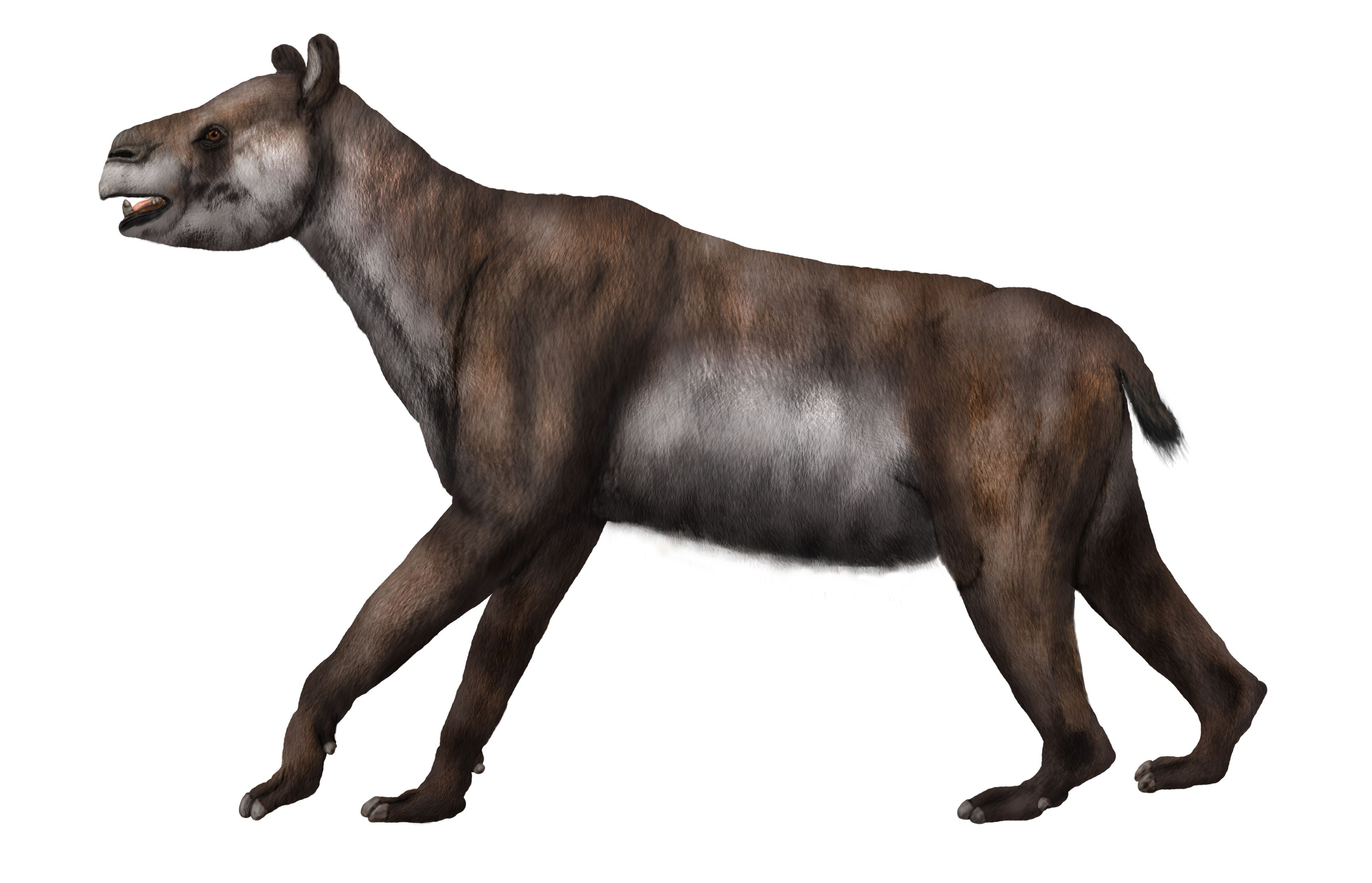 Reconstruction of Huilatherium, a notoungulate mammal of the Miocene of Colombia.